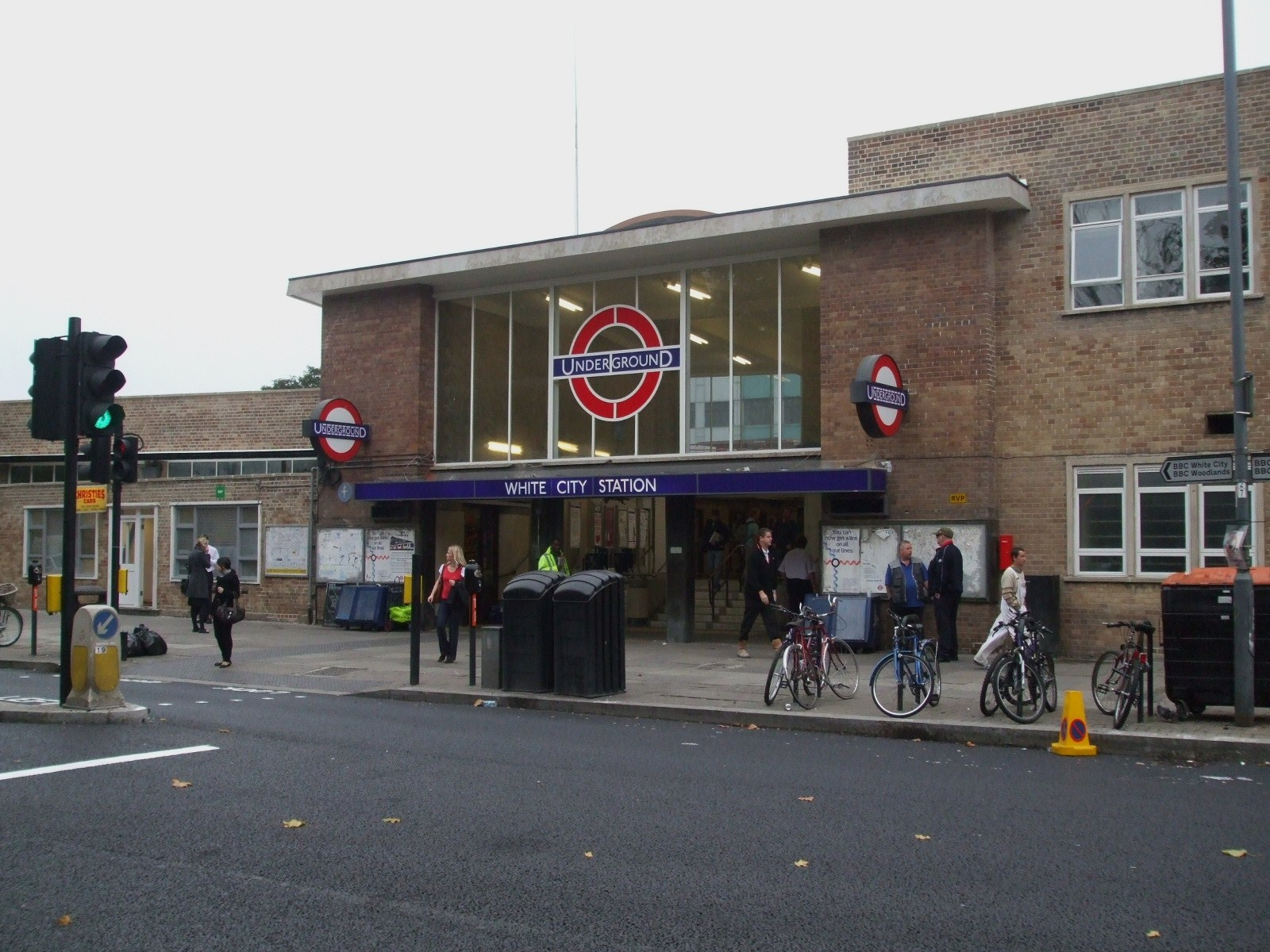 White City tube station entrance, after recent refurbishment (summer 2008)